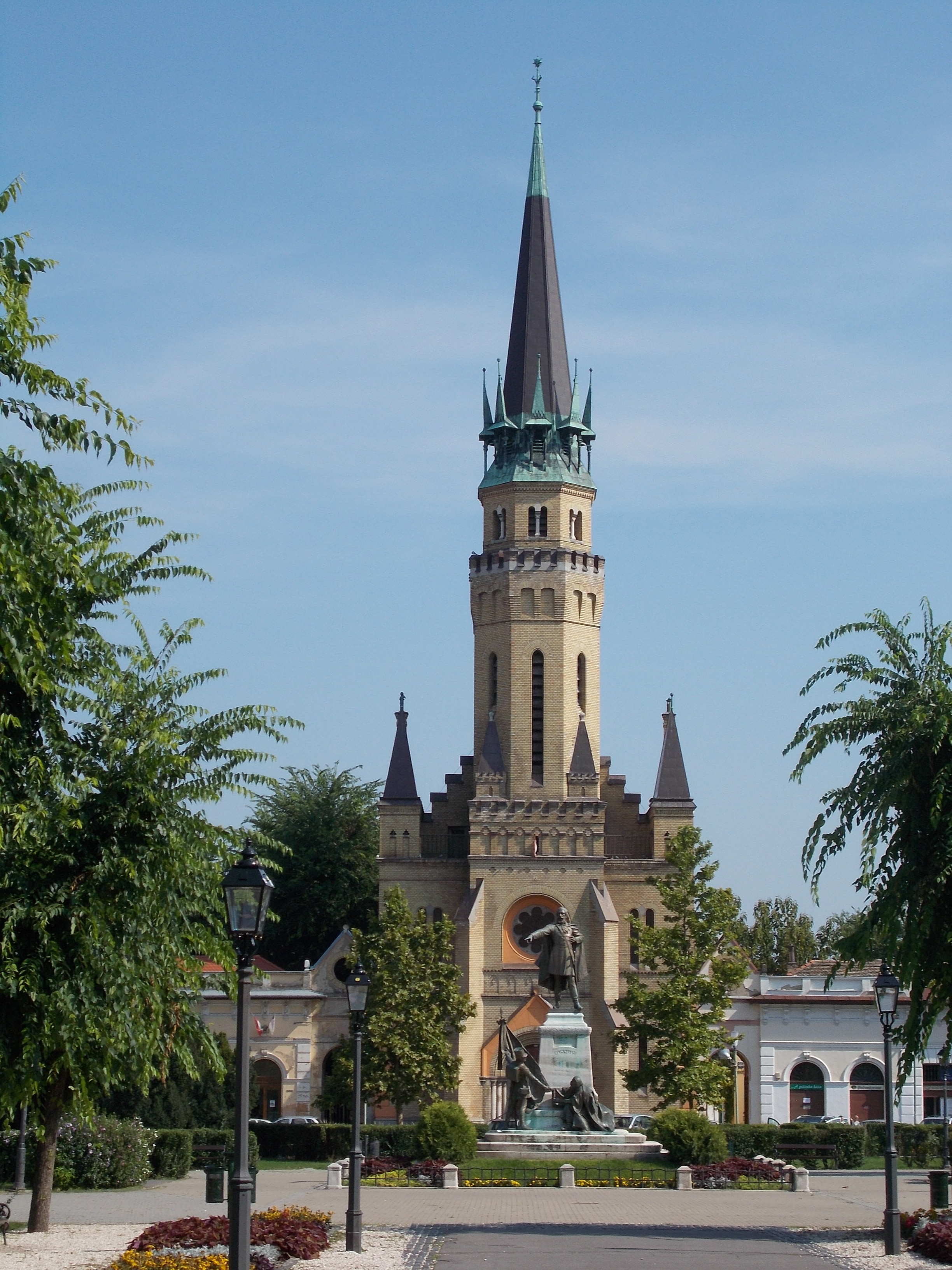 Evangelical church. Listed ID -1482. Neo-Gothic style. It was designed by Otto Sztehlo architect. The church was consecrated in 1896. - Szabadság Sq., Cegléd, Pest County, Hungary